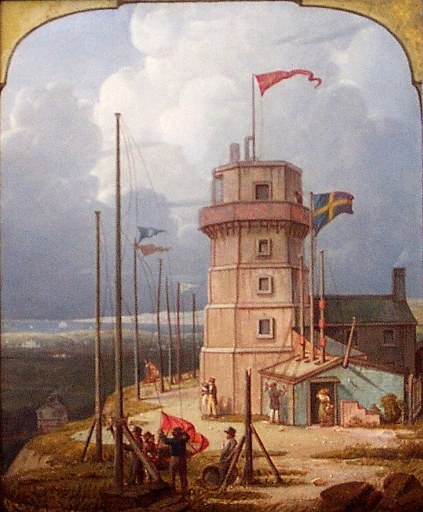 Bidston Lighthouse and Signals, by Robert Salmon